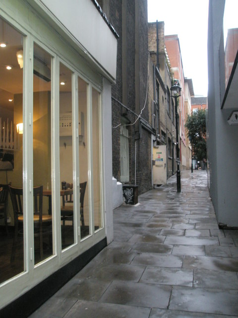 Looking from St Martin's Lane along Hop Gardens